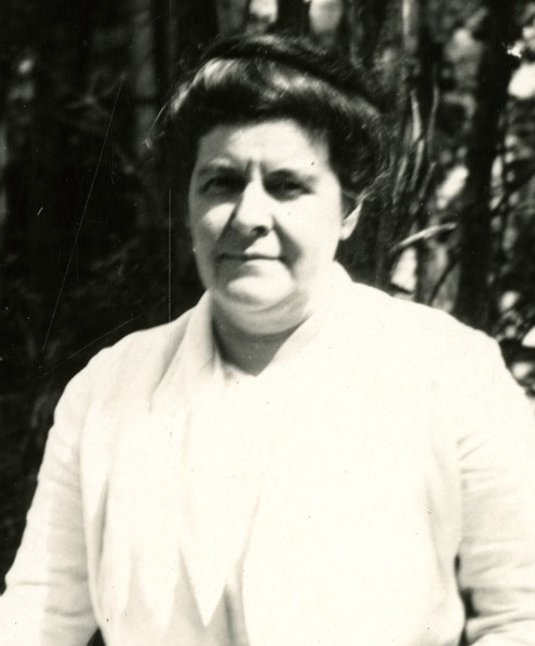 Subject: Peebles, Florence 1874-1956 Bryn Mawr College California Christian College Type: Black-and-white photographs Topic: Biology Women scientists Zoology Local number: SIA Acc. 90-105 [SIA2009-1445] Summary: Florence Peebles (1874-1956) was a research biologist who taught zoology at Bryn Mawr College, 1897-1919, and later moved to California Christian College, 1928-1942 Cite as: Acc. 90-105 - Science Service, Records, 1920s-1970s, Smithsonian Institution Archives Persistent URL:Link to data base record Repository:Smithsonian Institution Archives View more collections from the Smithsonian Institution.